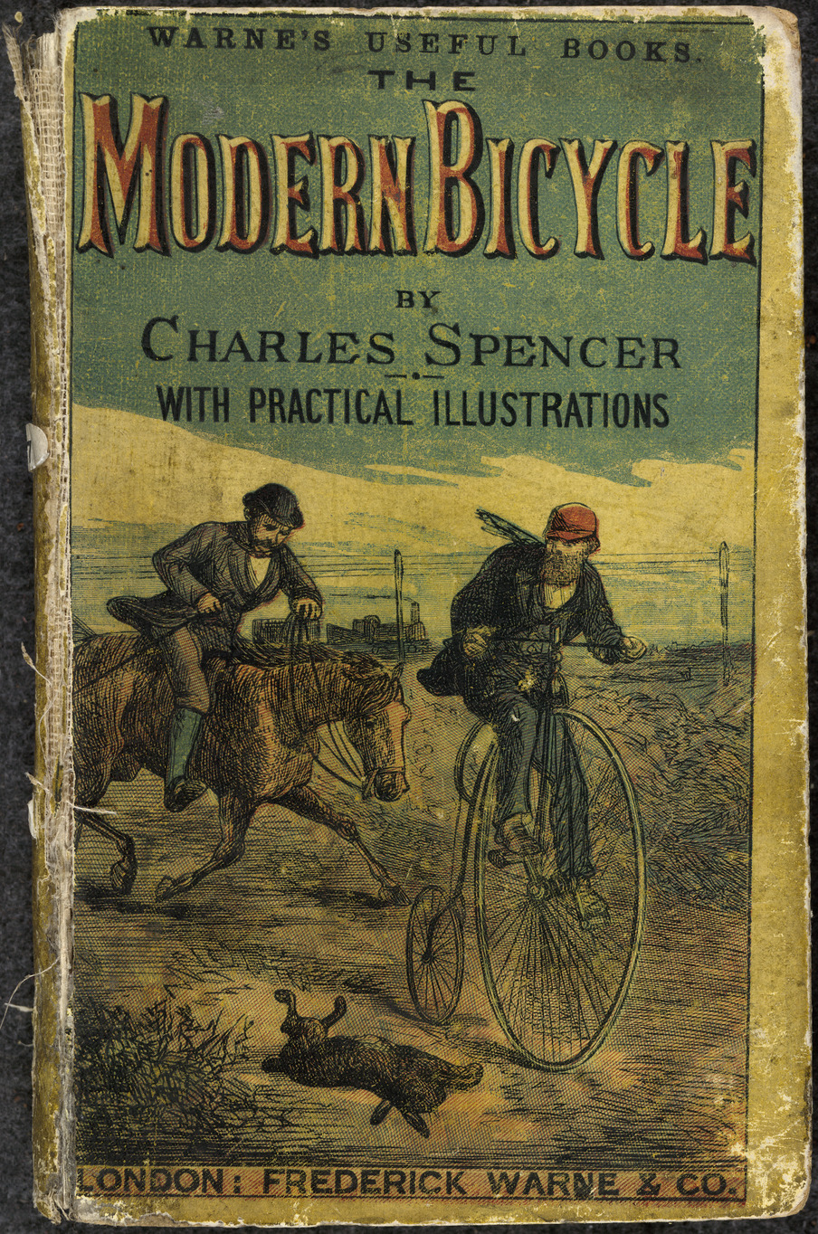 A man riding a bicyle being followed by another on horseback.